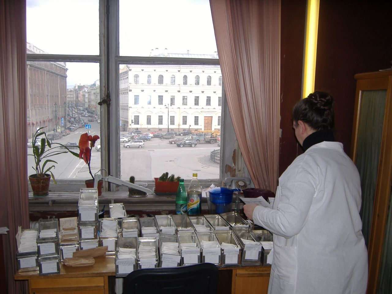 Nice view over the statue in St Isaac's Square.